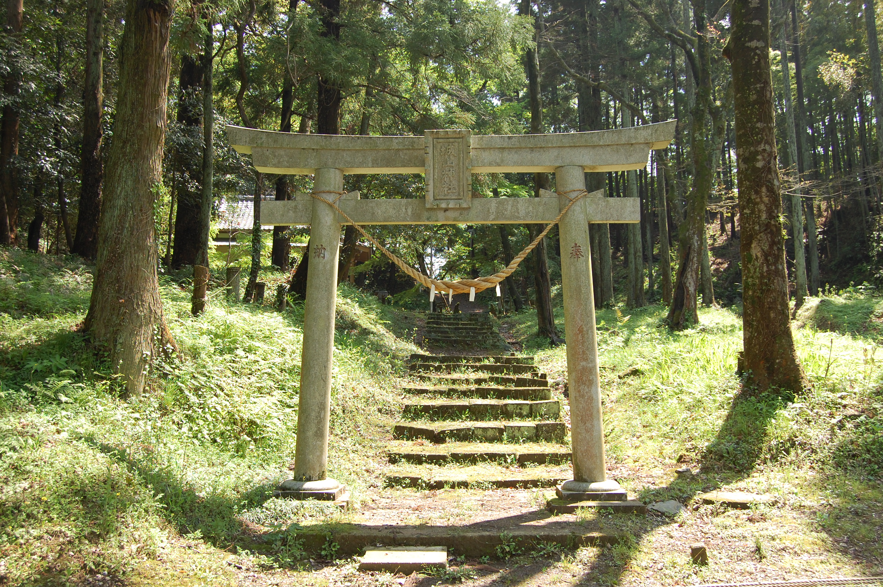 Torii of Shiroyama jinja. Location is vacant lot of Mariyatsu castle.